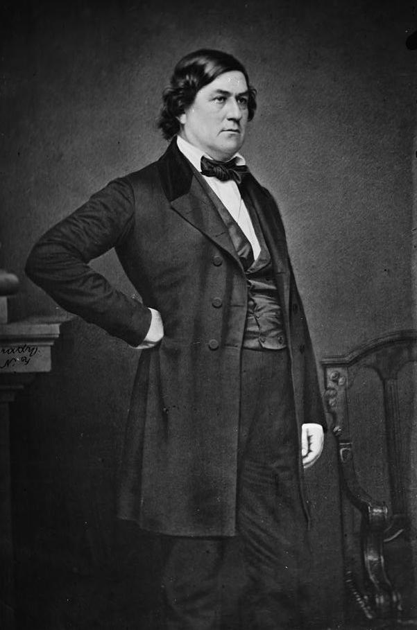 Portrait of Secretary of State Robert Mercer Taliaferro Hunter, officer of the Confederate States Government